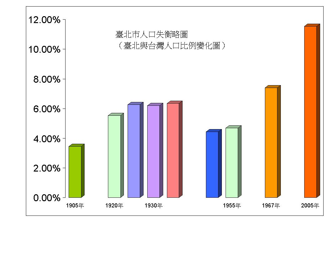 Population growth rate(?) of Taipei, 1905-2005